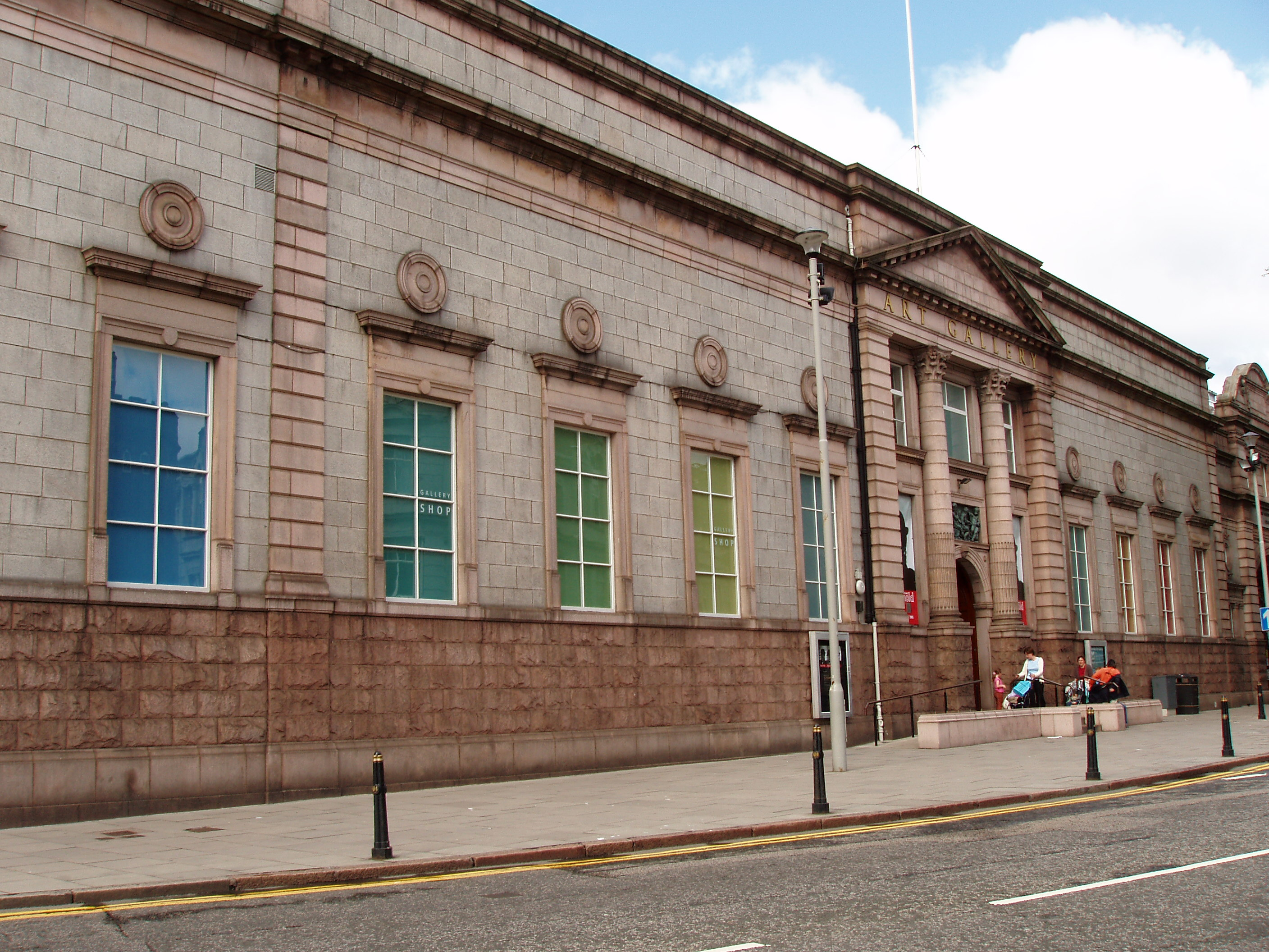 Aberdeen Art Gallery, picture taken from Schoolhill